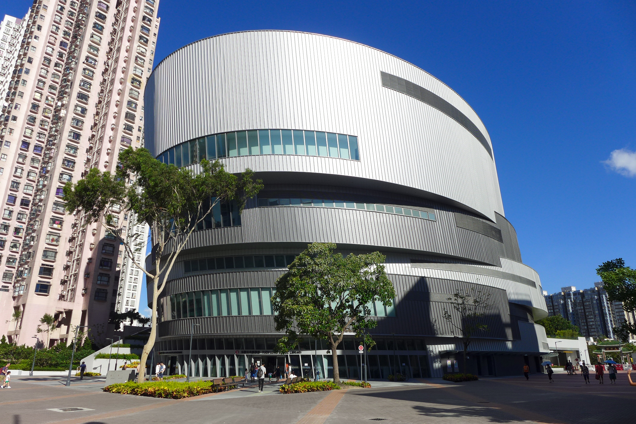 Yuen Long Leisure and Cultural Building